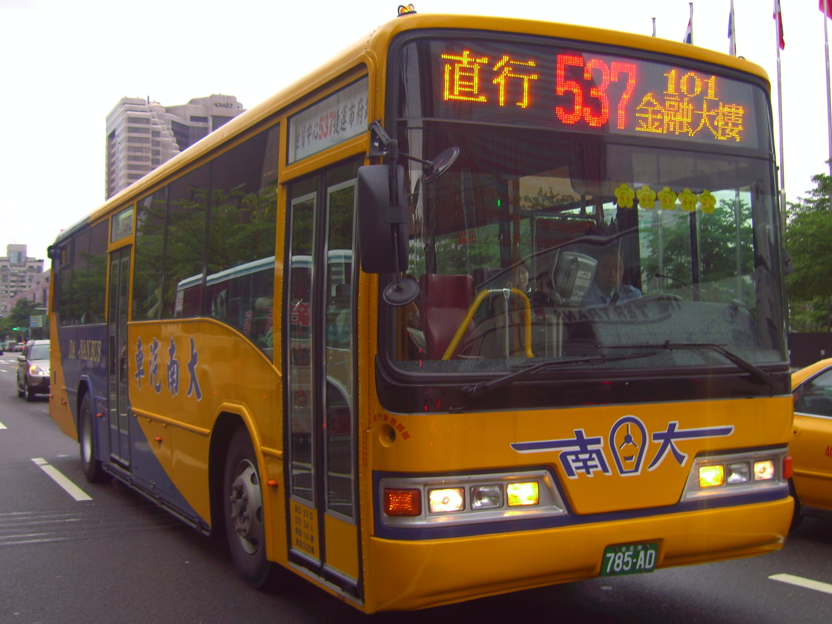 Danan Bus Route 537 (785AD).